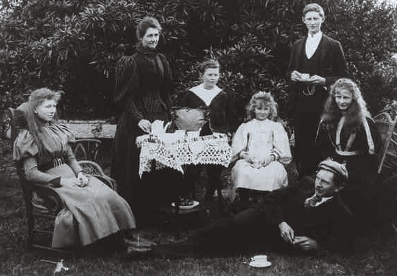 Portrait of the family of William Frederick de Mole (1852-1939) and Emily de Mole (1858-1941), née Moulden, taken circa 1896 (State Library of South Australia: Pictorial Collection: Archival number B 30387). From left to right: Florence Louise de Mole (1881–1966), seated; Emily de Mole, standing; Clive Moulden de Mole (1886–1934), standing; Gladys Rose de Mole (1887–1979), seated; Lancelot Eldin de Mole (1880-1950), standing; Winifred Emily de Mole (1886–1903), seated; and William Frederick de Mole, in foreground. Lance de Mole was a prolific inventor who suggested the idea of what would become the tank to the British authorities before the First World War (however but his idea was not taken up at the time) and the tank was developed later by others.